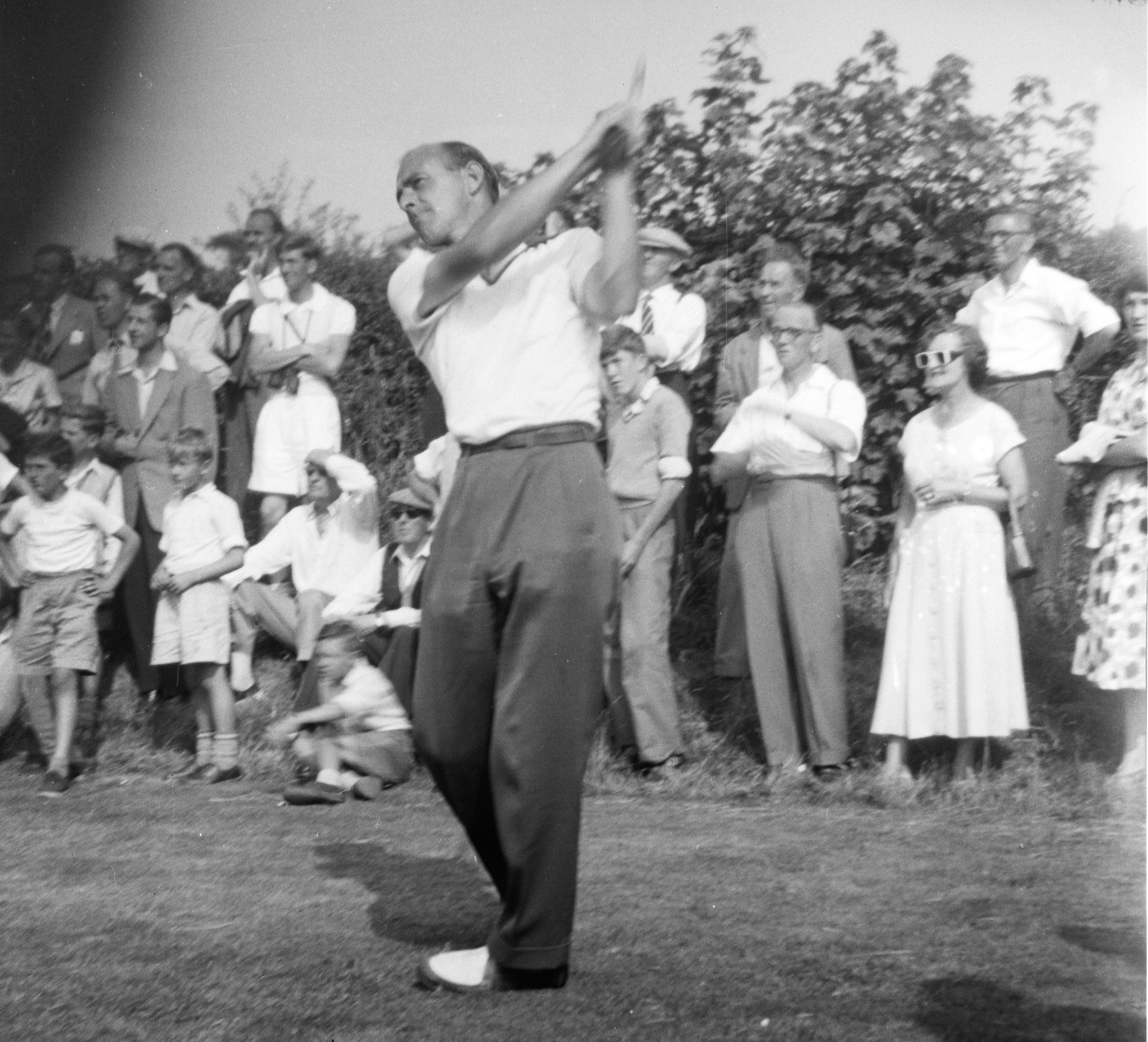 Eric Brown In Action (Golfer from Bathgate) [Represented Great Britain in the Ryder Cup in 1969 and 1971].